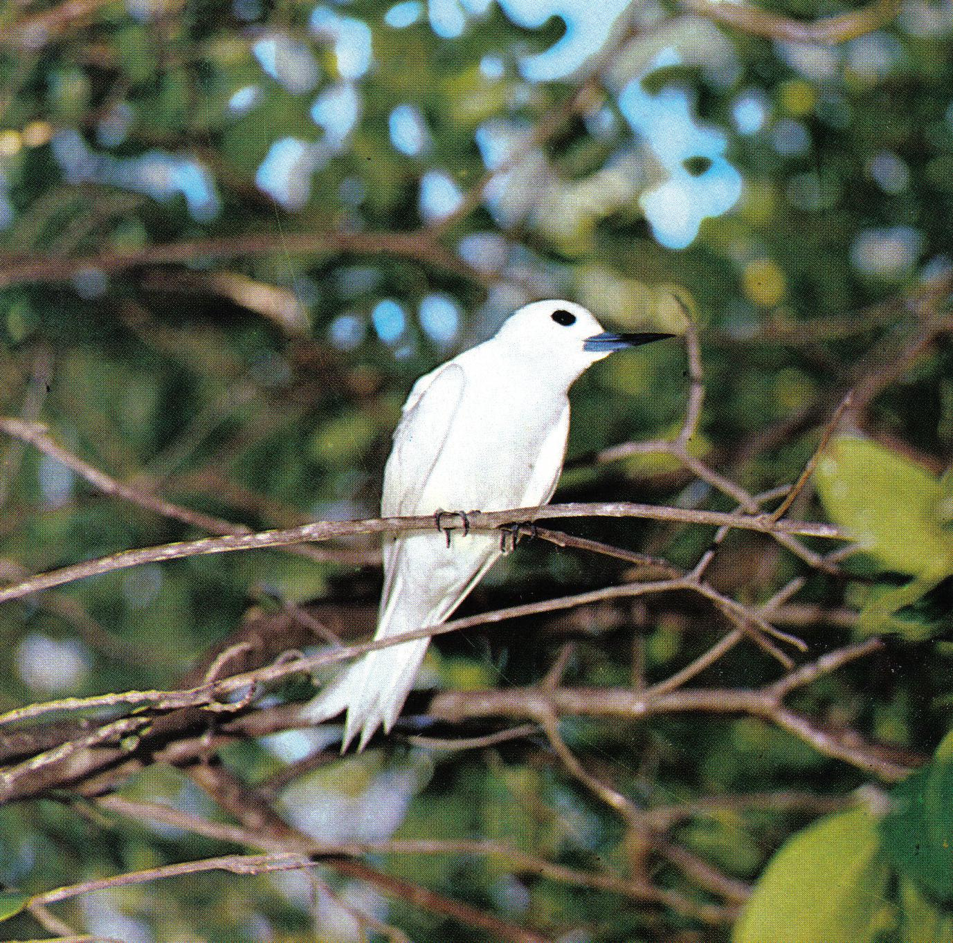 Fairy tern (Gygis alba) on Seychelles